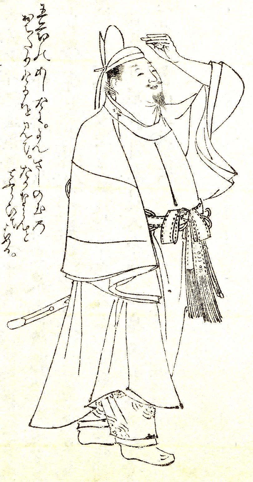 Minamoto no Tōru (源融) was a Japanese poet and statesman.This picture was drawn by Kikuchi Yosai（菊池容斎） who was a painter in Japan.